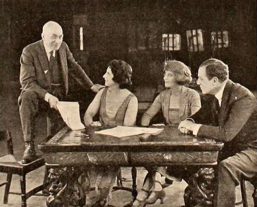 Still from the production of the American film The Riddle: Woman (1920) with (from left) director Edward José, Geraldine Farrar, Adele Blood, and Montagu Love, on page 4954 of the June 19, 1920 Motion Picture News.